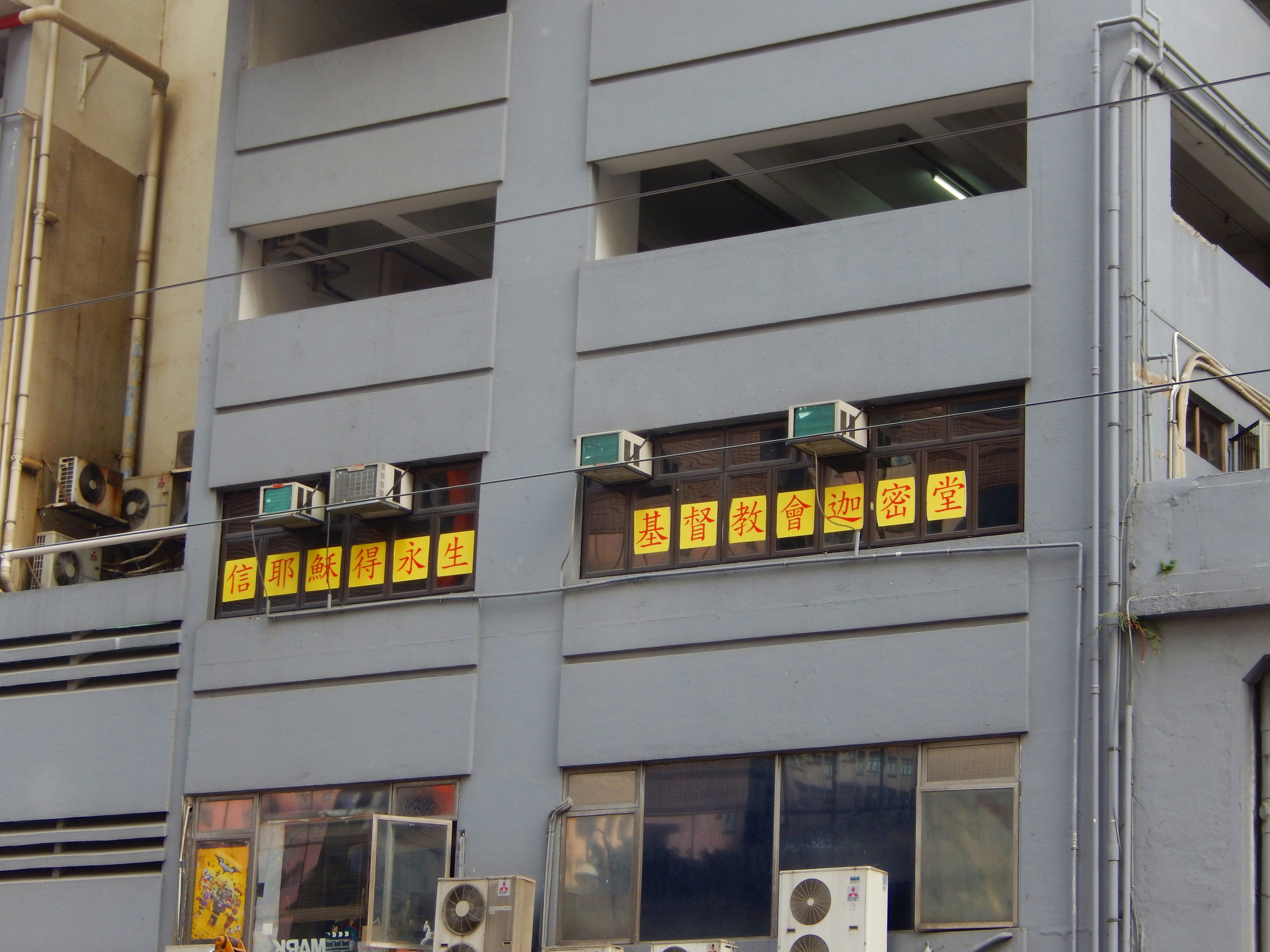 Chinese Christian Carmel Church (North Point) in Hong Kong. Both Hokkien and Cantonese are used.